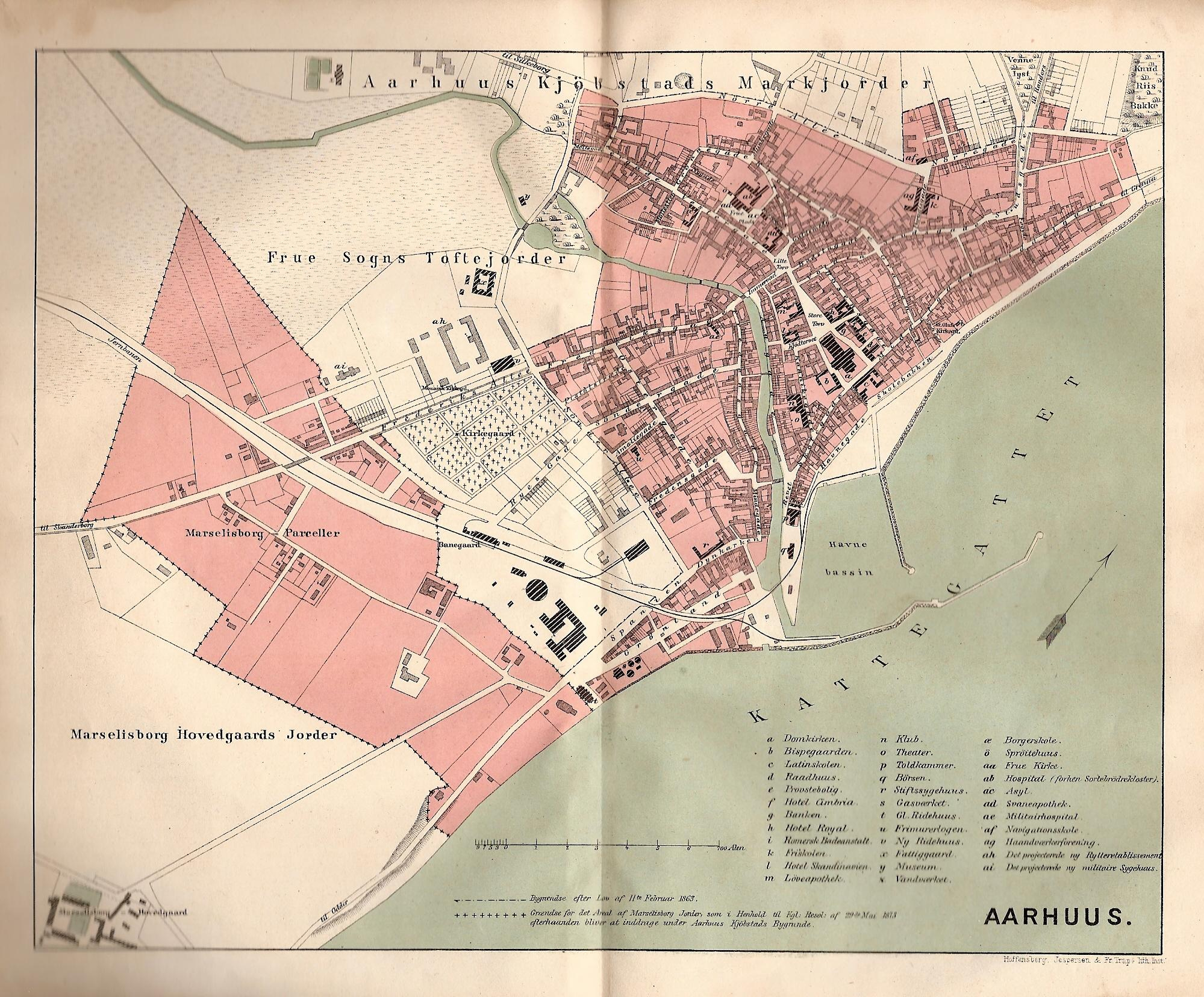 City of Århus by 1873